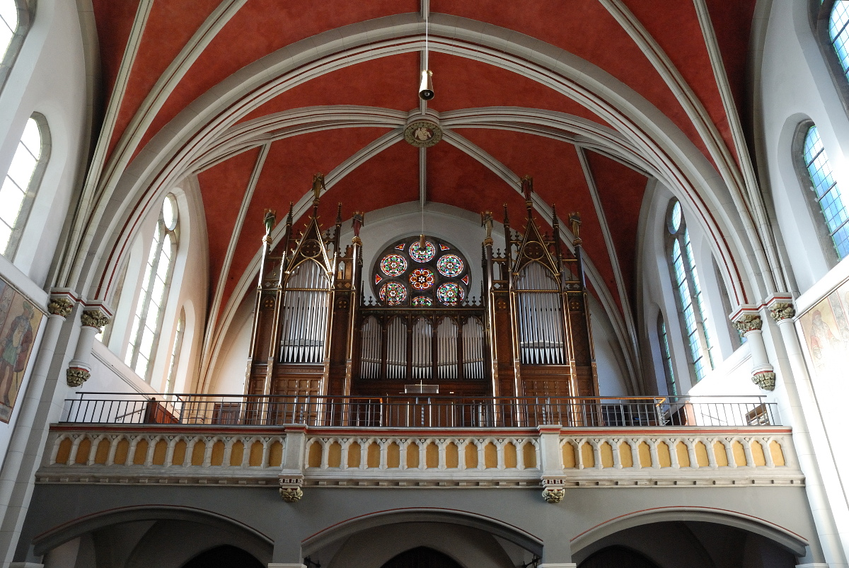 Pipe organ of St. John's Church in Brunswick